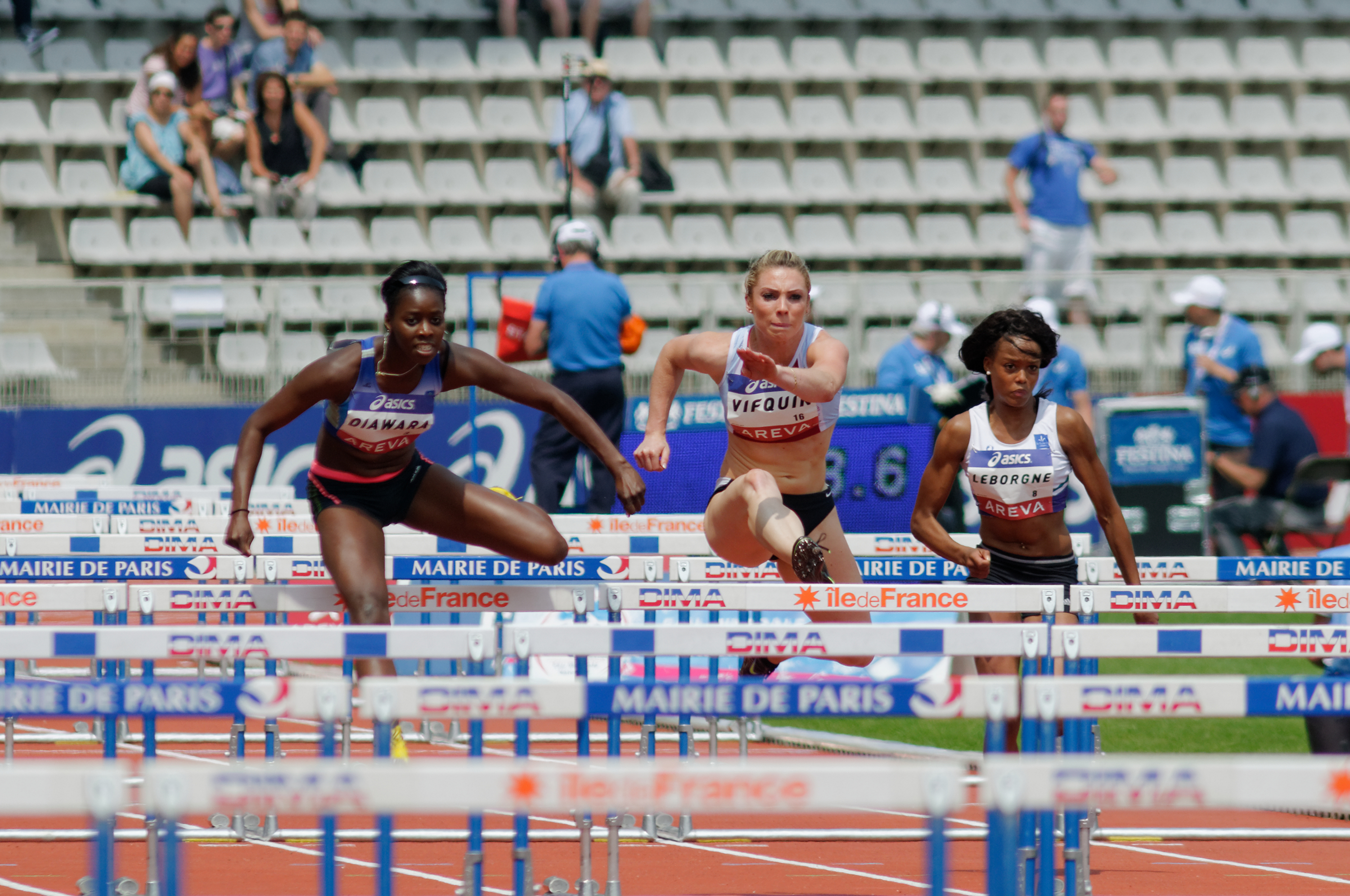 Cindy Billaud wins the second series of the 100 metres hurdles in 12"75 during the French Athletics Championships 2013 at Stade Charléty in Paris, 13 July 2013.